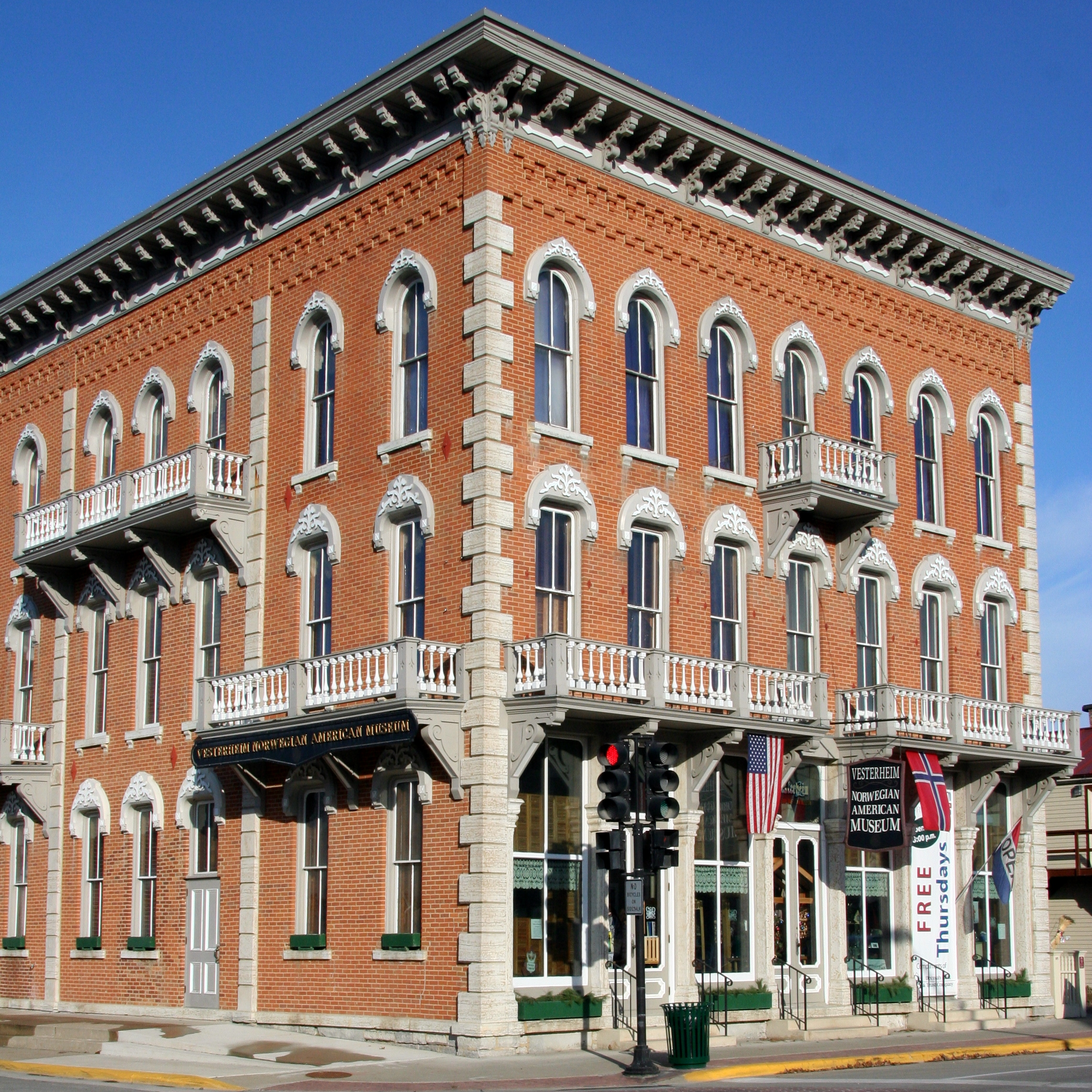 Vesterheim Norwegian-American Museum main building as seen from the intersection of Mill and Water Streets in Decorah, Iowa